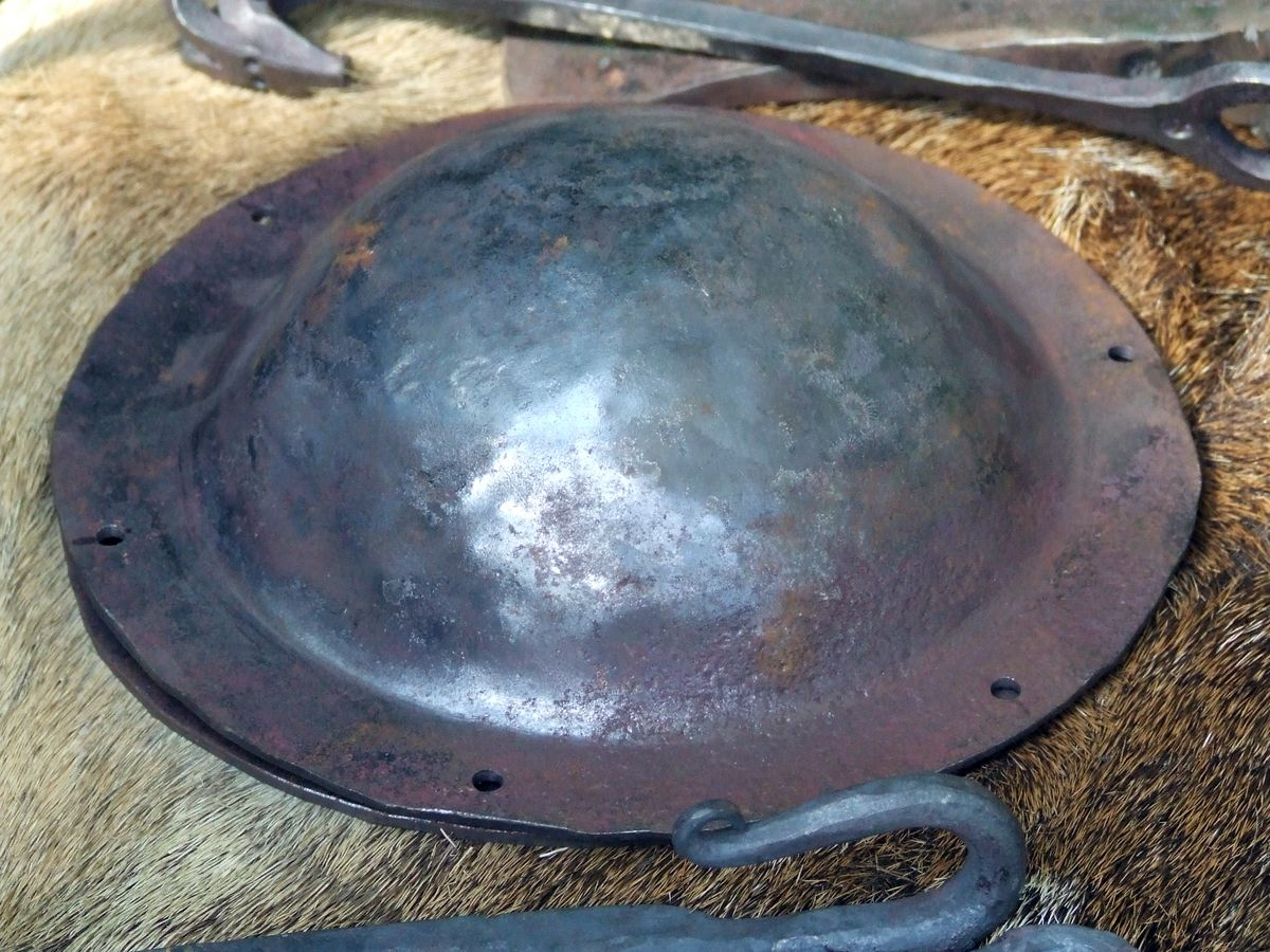 Main part of the medieval shield, reconstruction